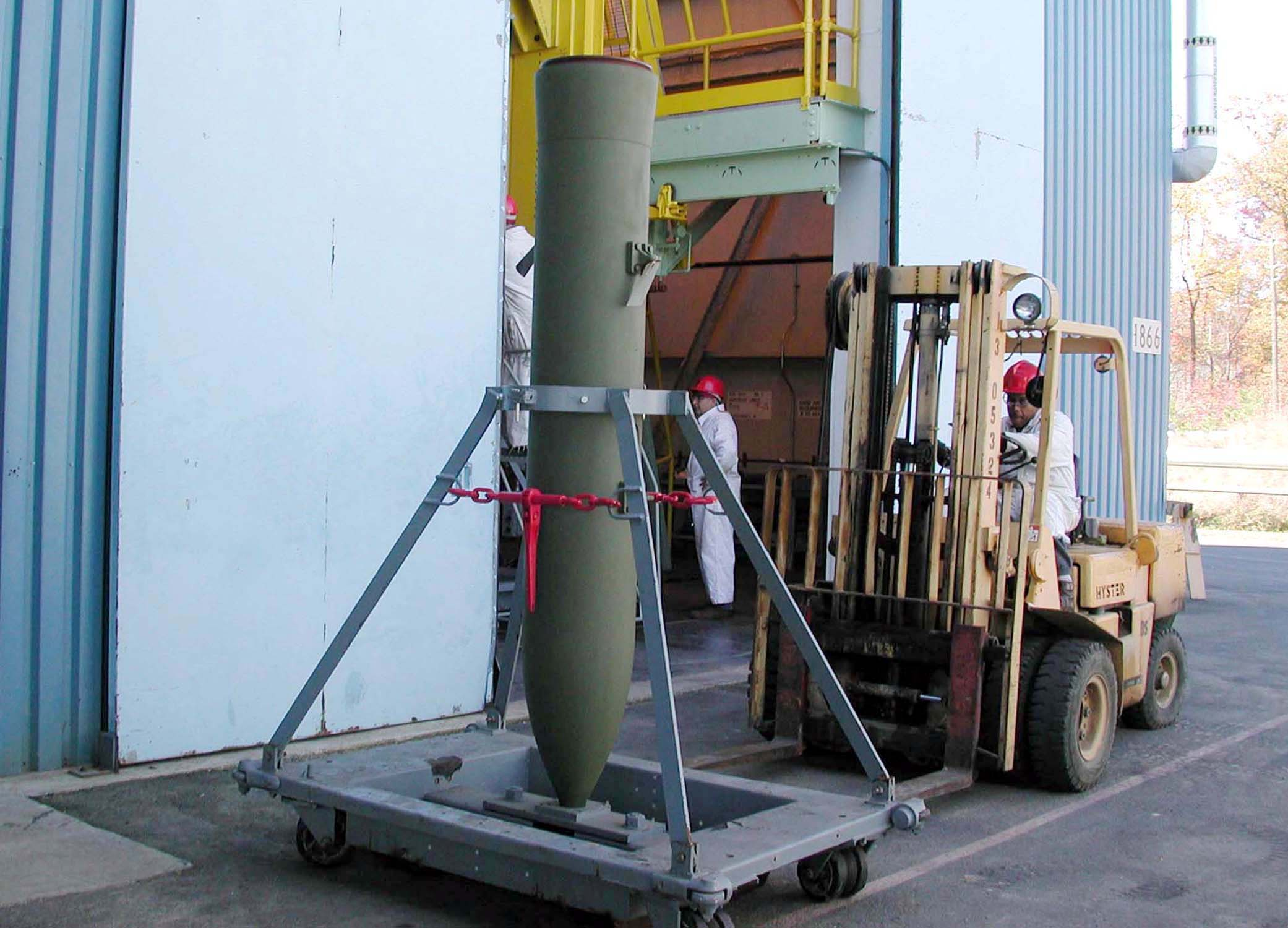 020305-N-6208N-001 Indian Head, MD (Mar. 5, 2002) -- A completed BLU-118B thermobaric bomb is ready for shipping at the Naval Surface Warfare Center (NSWC). Engineers at NSWC developed the thermobaric explosives, which were used for the first time against Al Qaida and Taliban forces March 2 during combat missions in support of Operation Anaconda in eastern Afghanistan. The name comes from the Greek words for "heat" and "pressure." The munition has a primary explosion which releases the fuel for a secondary explosion. The secondary causes extremely high pressure wave. U.S. Navy photo courtesy of Naval Surface Warfare Center. (RELEASED)